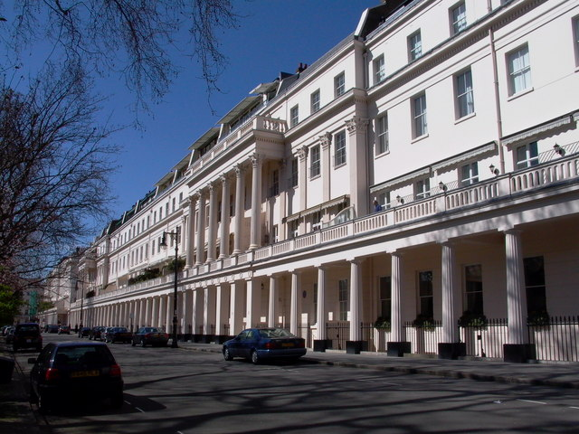 Eaton Square, London SW1W Terrace to the north side of Eaton Terrace looking west. Part of the Grosvenor Estate in Belgravia.